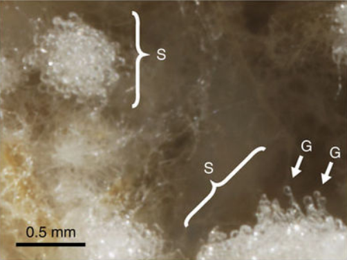 Photograph of gongylidia (G) and staphylae (S) in the fungus garden of the leaf-cutting ant Acromyrmex echinatior.